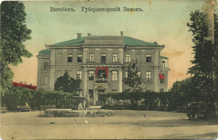 postcard: Governor's Palace in Vitebsk, Belarus